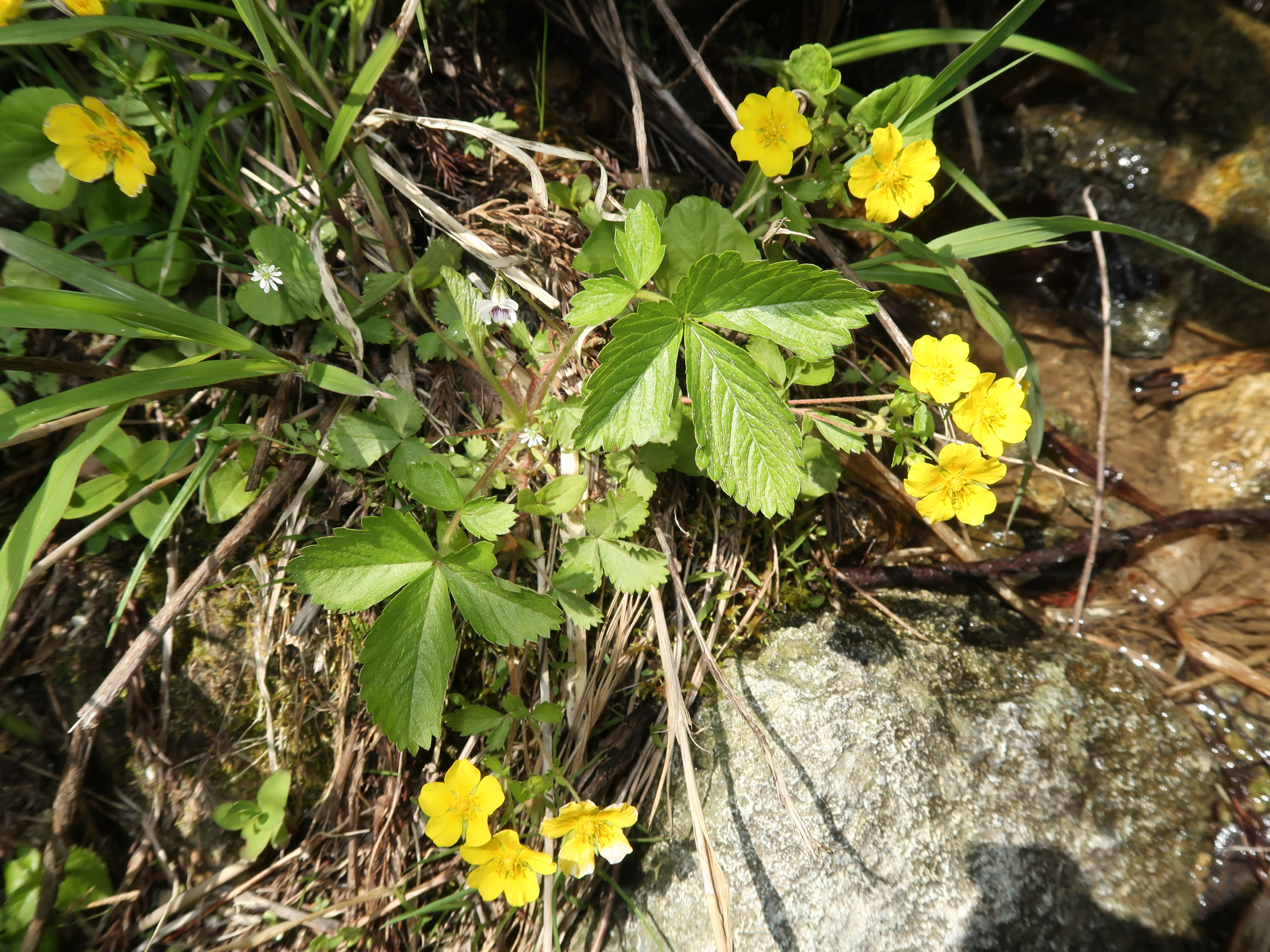 Potentilla togasii, Minami-uonuma city, Niigata pref., Japan